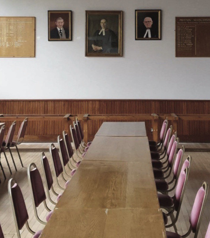 The Dining Hall of St. Anselm Hall, University of Manchester. Designed in 1961 by Harry S. Fairhurst.